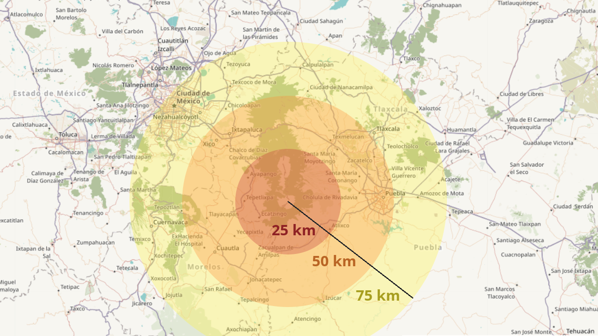 red radius: 25kms, orange radius: 50kms, yellow radius: 75kms